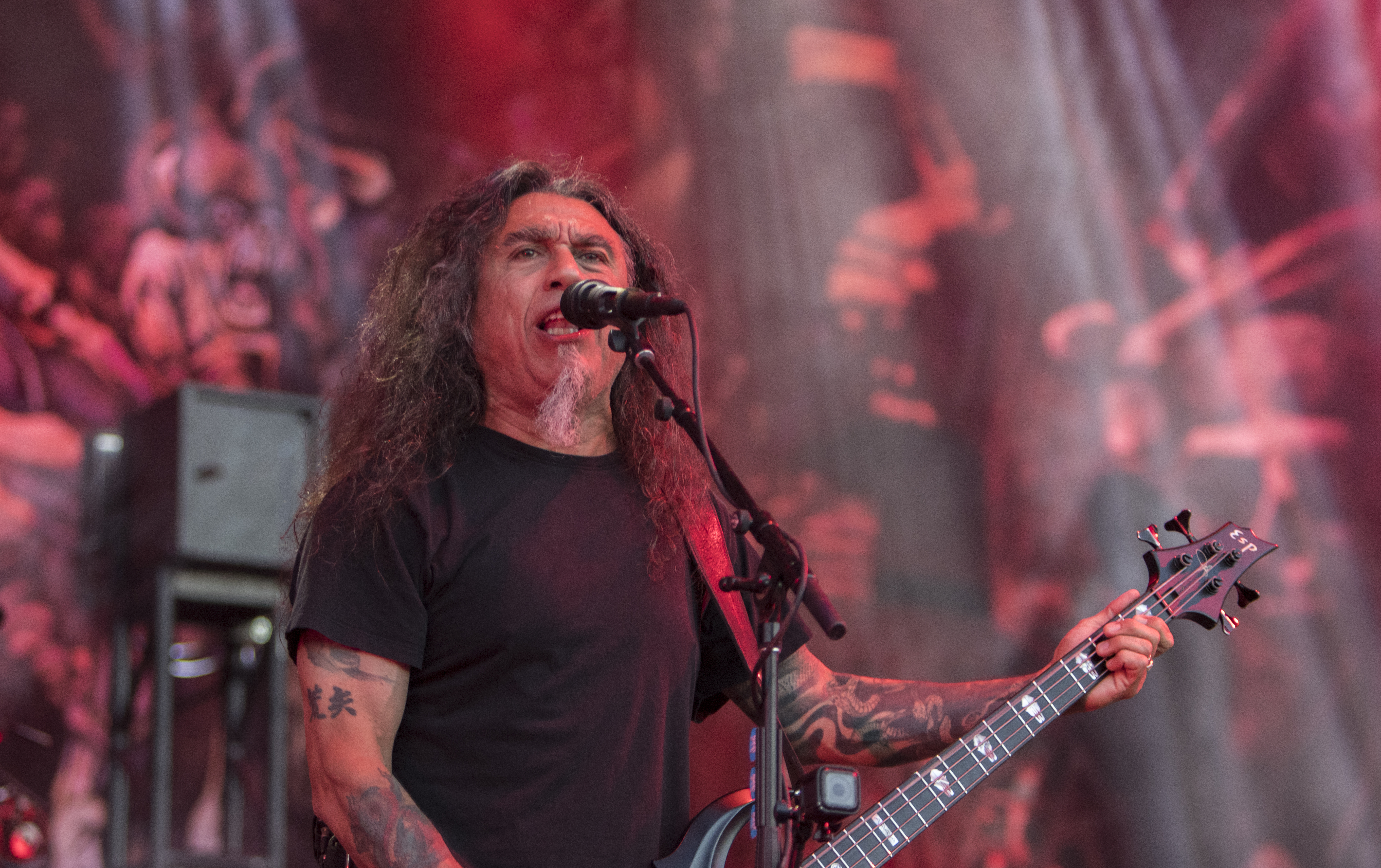 Slayer at Tuska Open Air Metal Festival 2019 in Helsinki, Finland (Kalasatama)